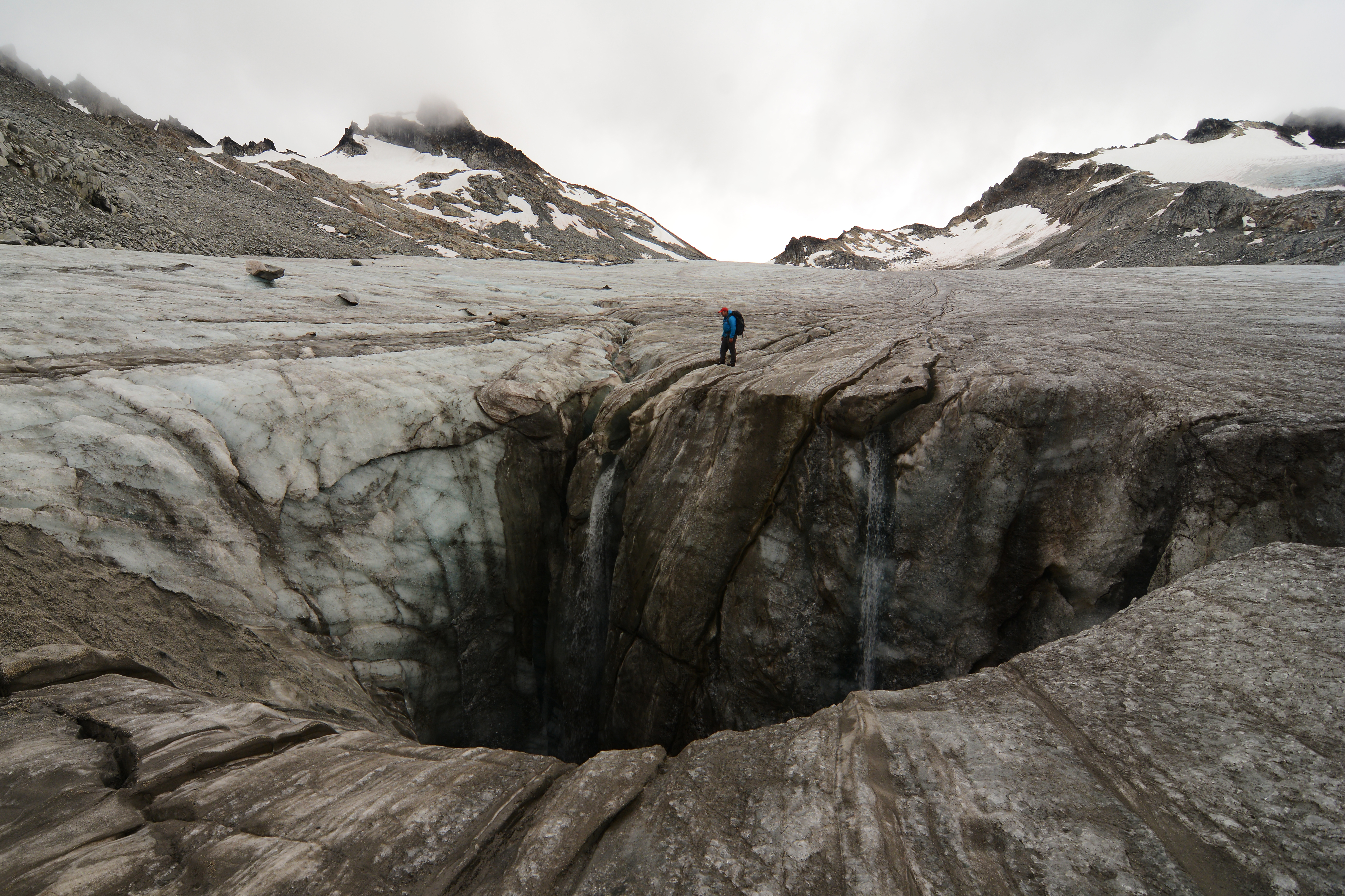 A hiker stands next to a massive moulin on Snowbird Glacier. While Snowbird Glacier can generally be crossed during the midsummer months without technical gear, moulins and surface water do present serious hazards to unwary travelers.